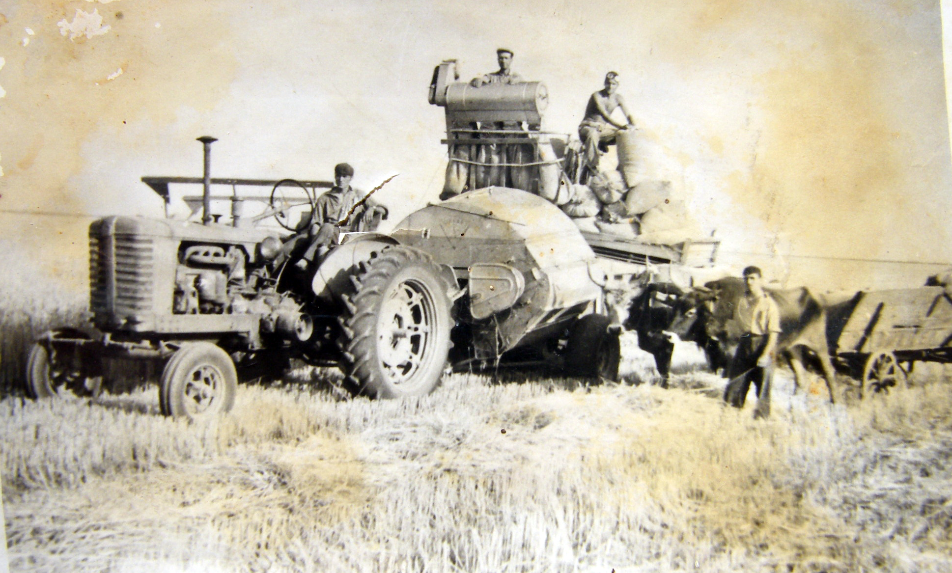 Harvesting the wheat in 1960 at the CAP (Cooperativa agricolă de producție – Agricultural Cooperative for Production) of Vintilești, comune of Bordei Verde in Brăila County, Romania.